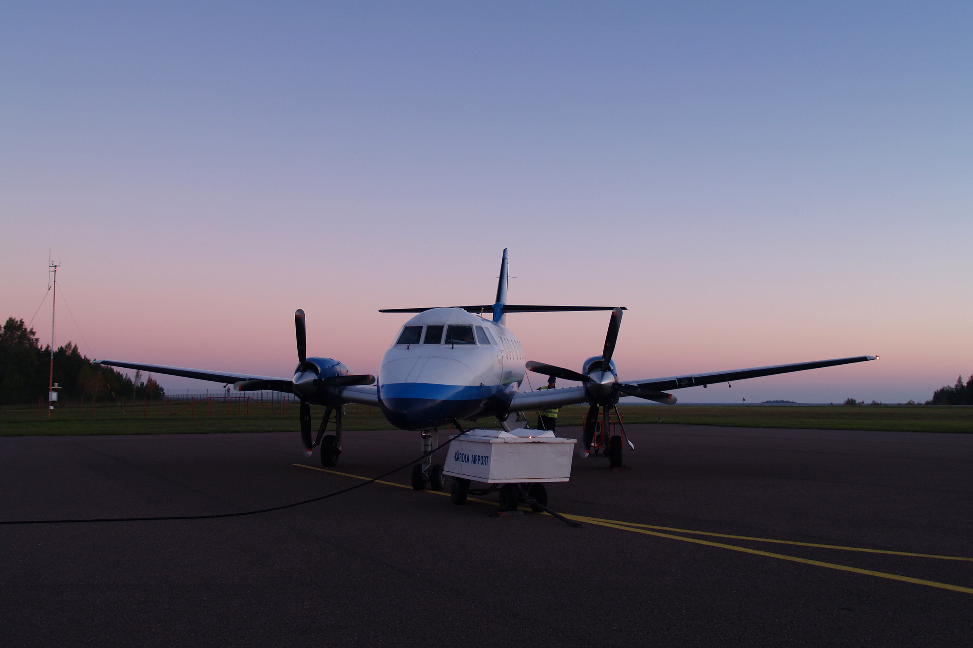 Avies Jetstream 31 in Kärdla Airport.